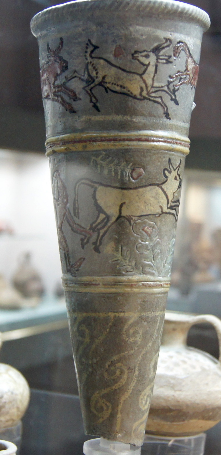 Kition, Faience ryhton with enamel inlay, 13th c. BC, Nicosia museum